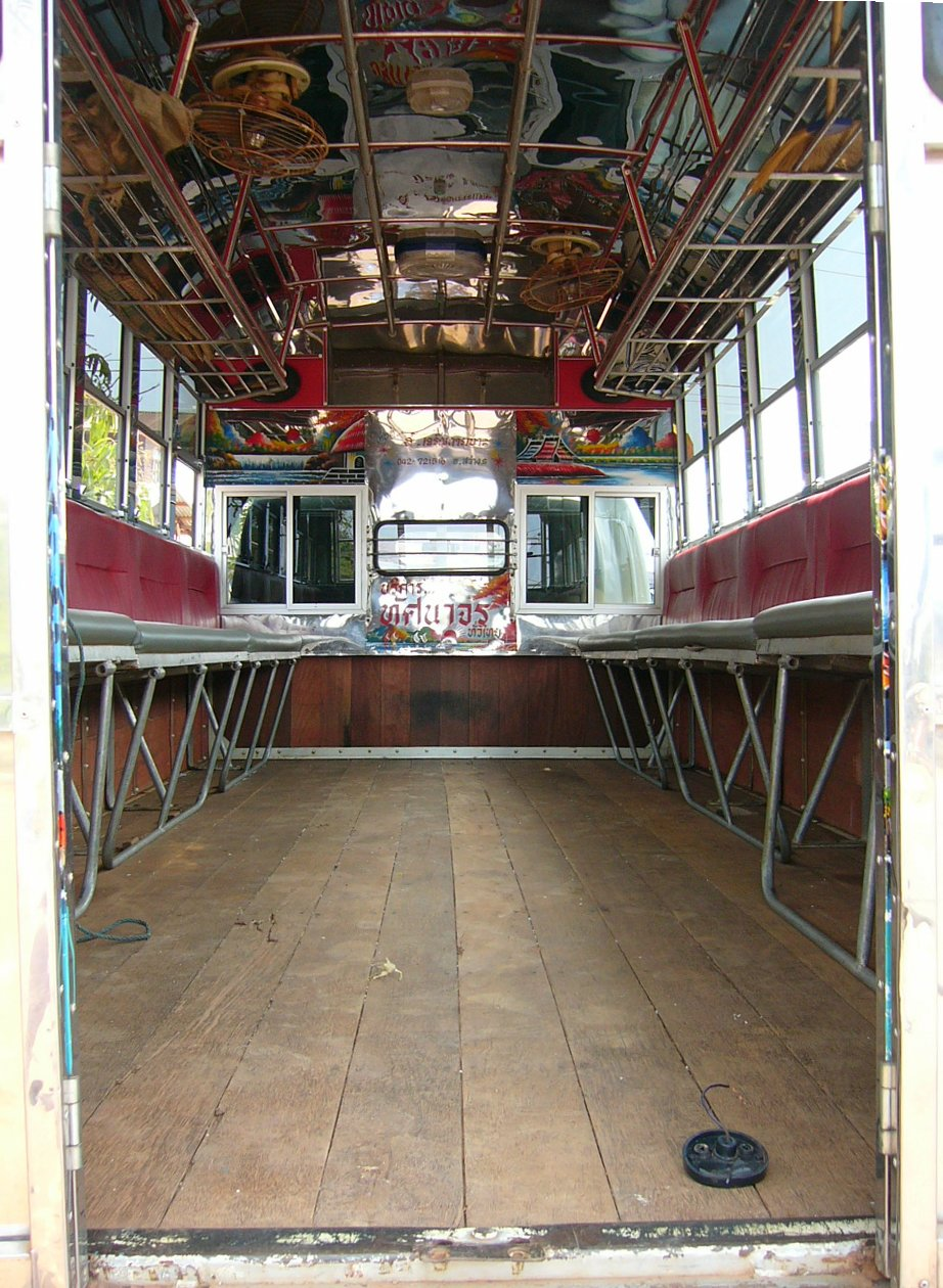 Empty medium sized Songthaew, seen in Sakon Nakon, Thailand.